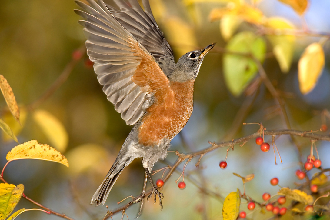 American Robin in North Carolina